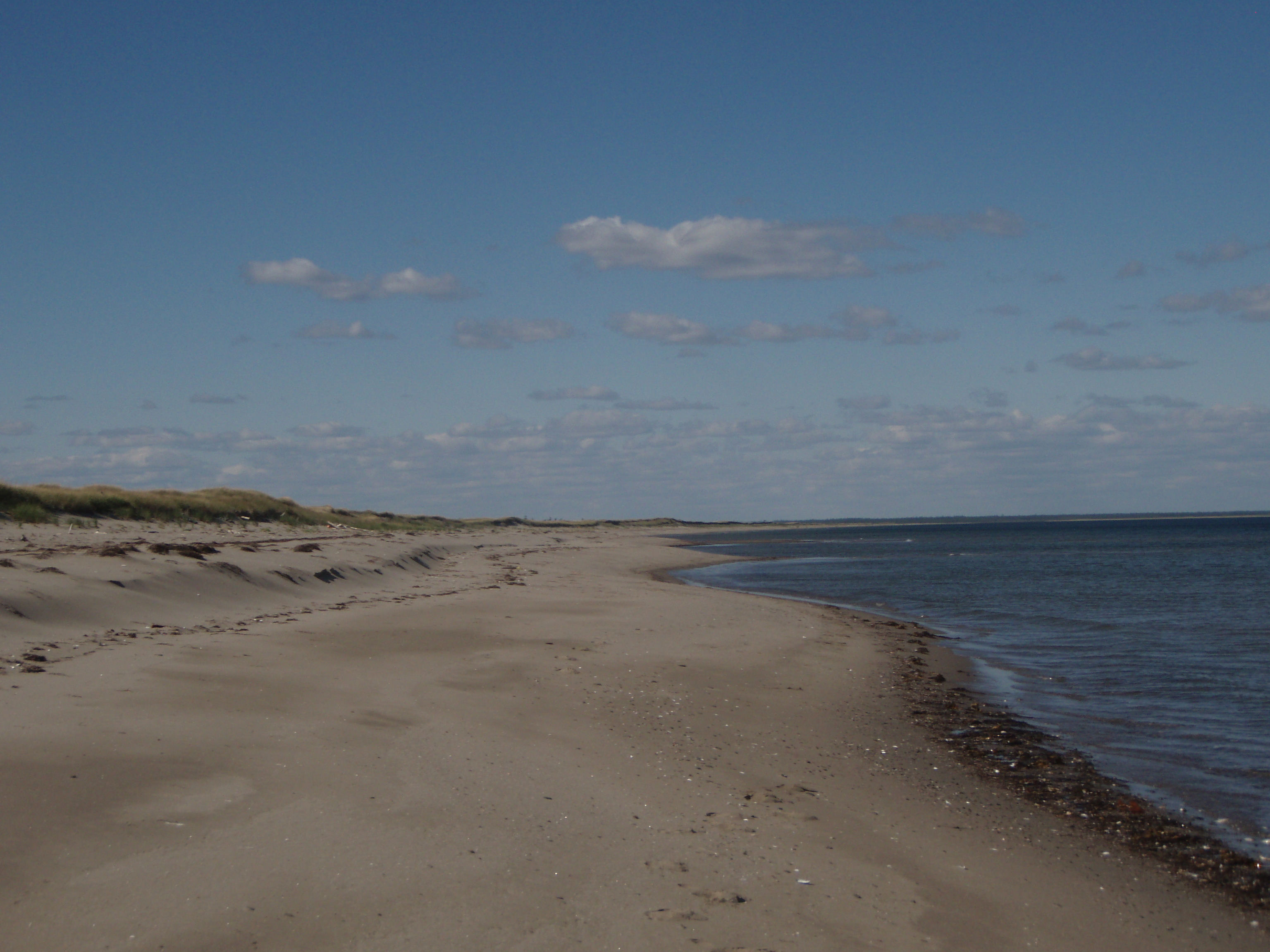 Kouchibouguac National Park, N.B., Canada